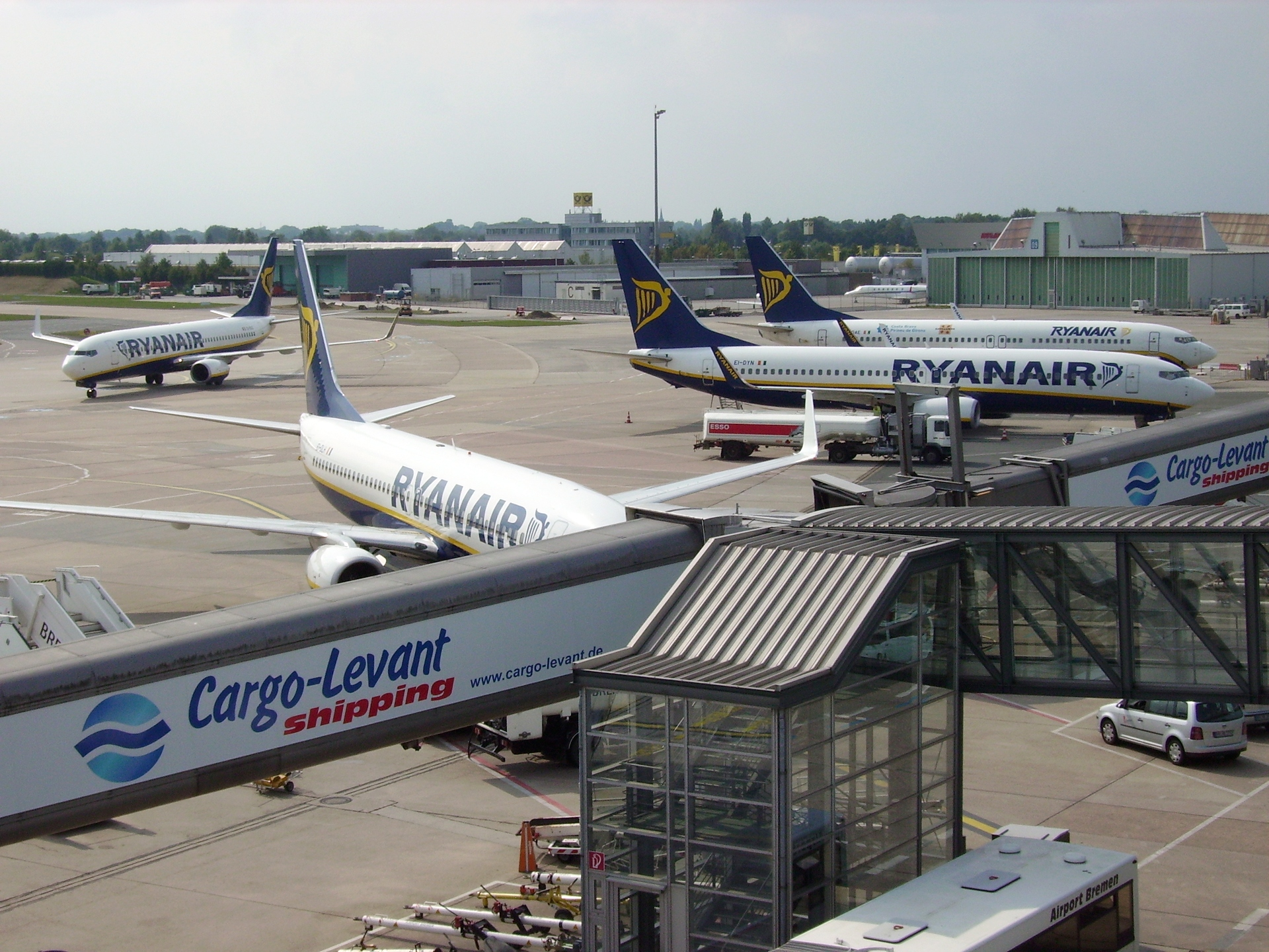 Four Ryanair Boeing 737 jet planes at the airport of Bremen. The sternmost aircraft has the registration EI-DAE and the aircraft in front of it has EI-DYN.